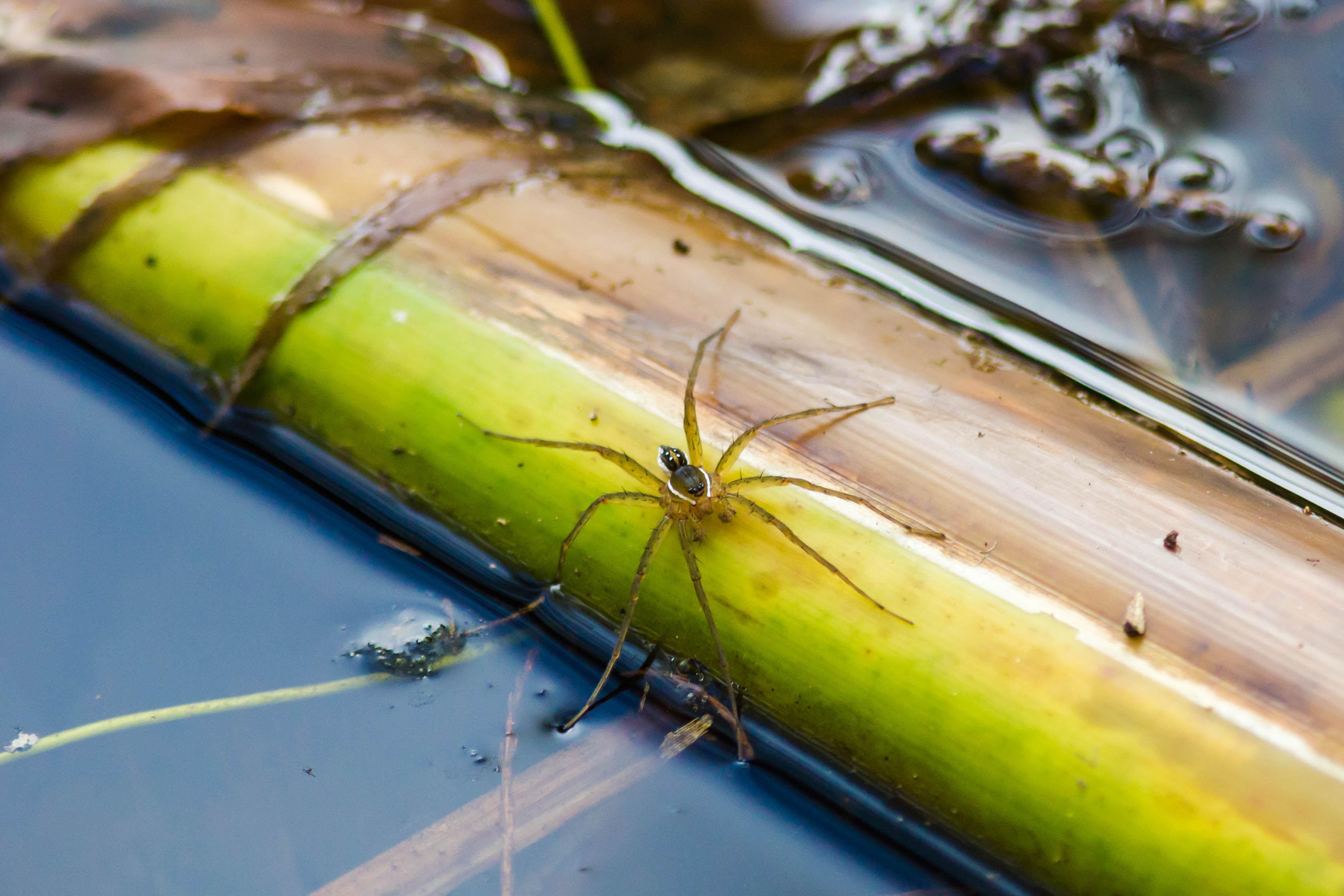 Six-spotted fishing spider